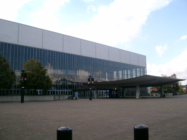 Memorial Coliseum in Portland, Oregon, United States, former home of the Portland Trail Blazers.